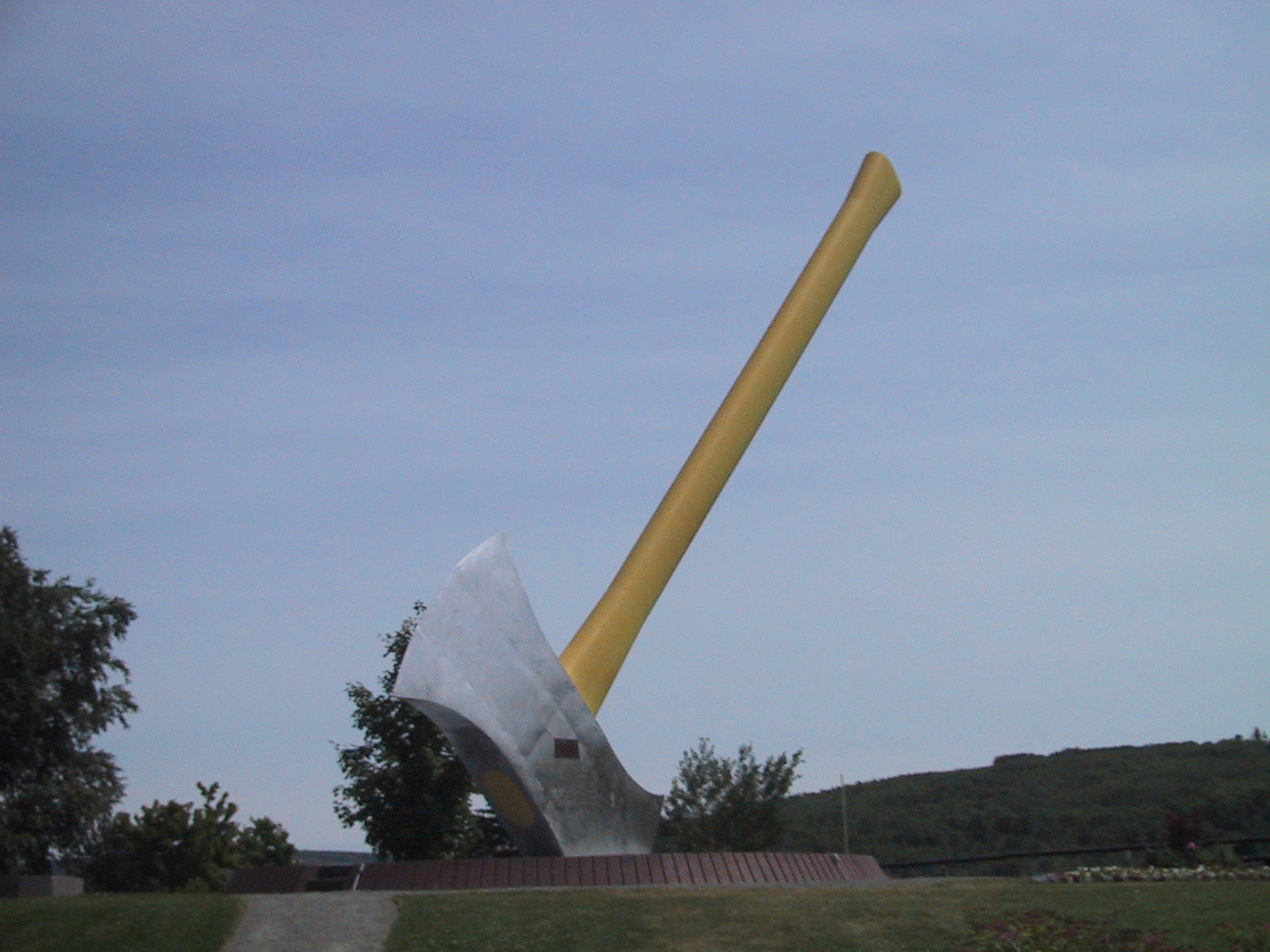 World's Largest Axe, Nackawic, NB, Canada Placed here by Paul Bunyan's best friend and confident, Art Burns.